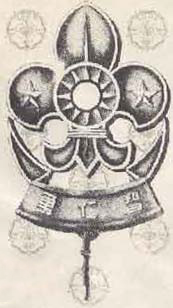 Scouting and Guiding in mainland China logo.